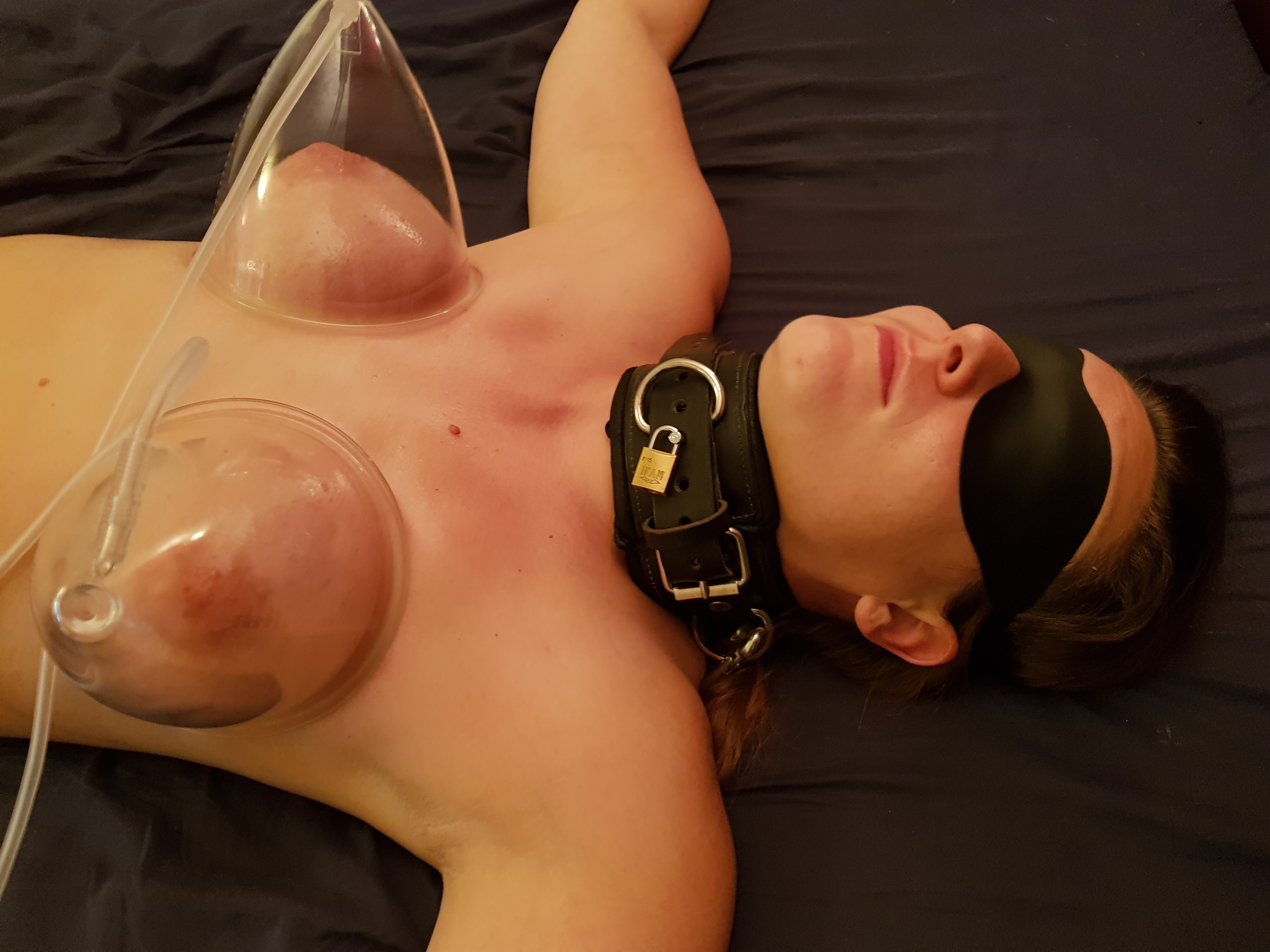 Breast torture using vacuum pump.